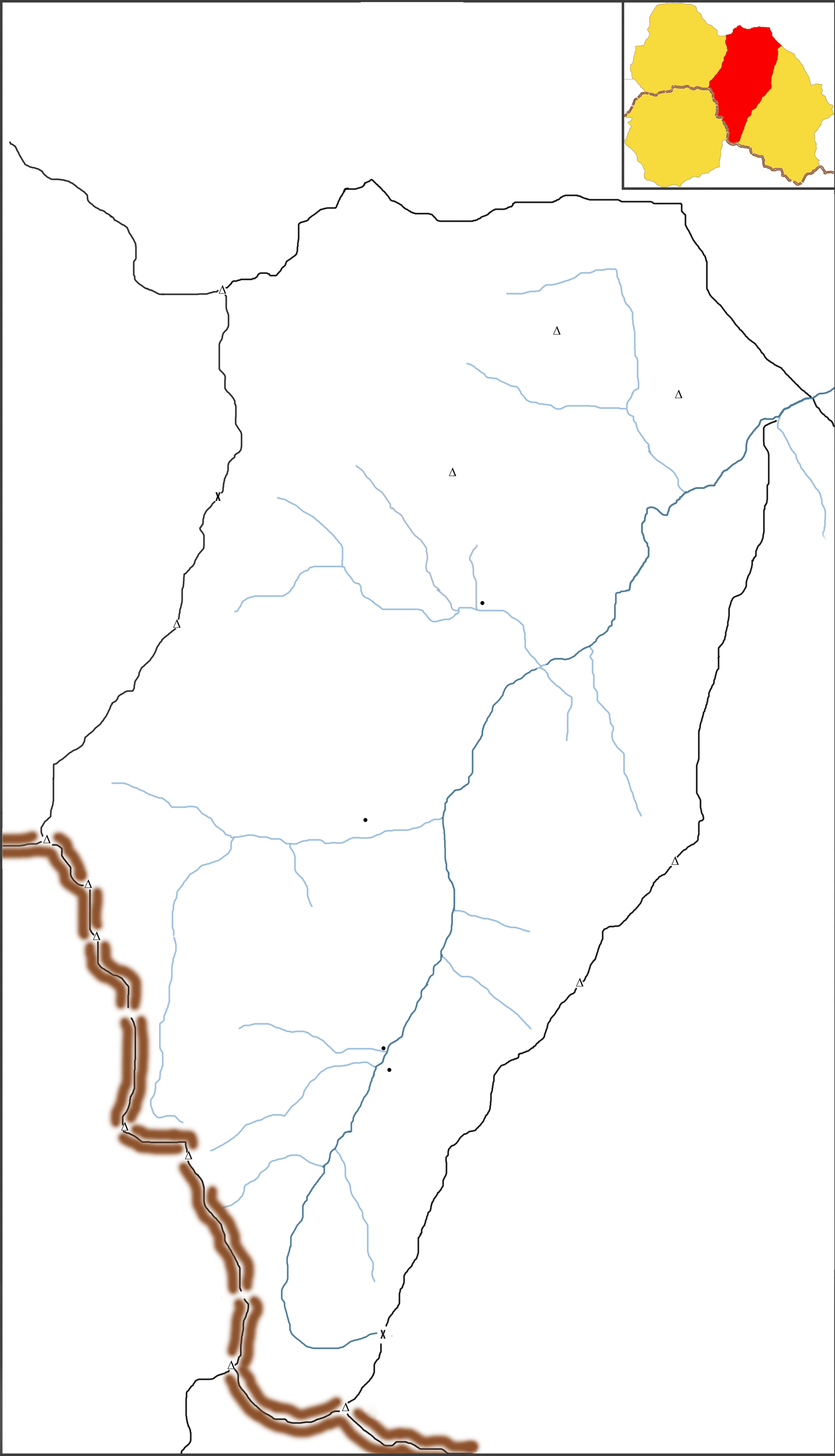 Shatili valley in Khevsureti